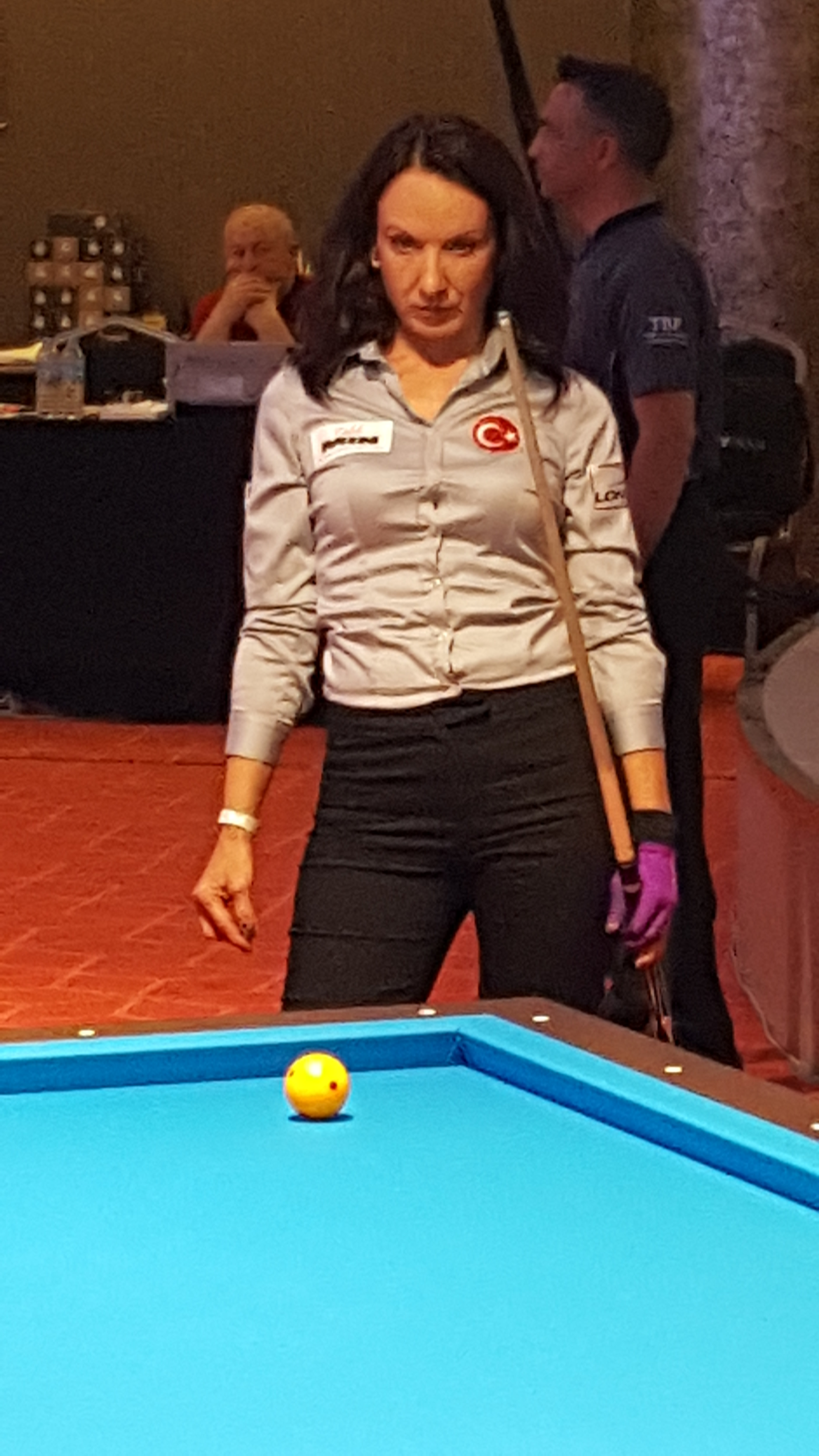 2018/1 3-cushion World Cup in Bosphorus Sorgun Hotel, Antalya, Turkey